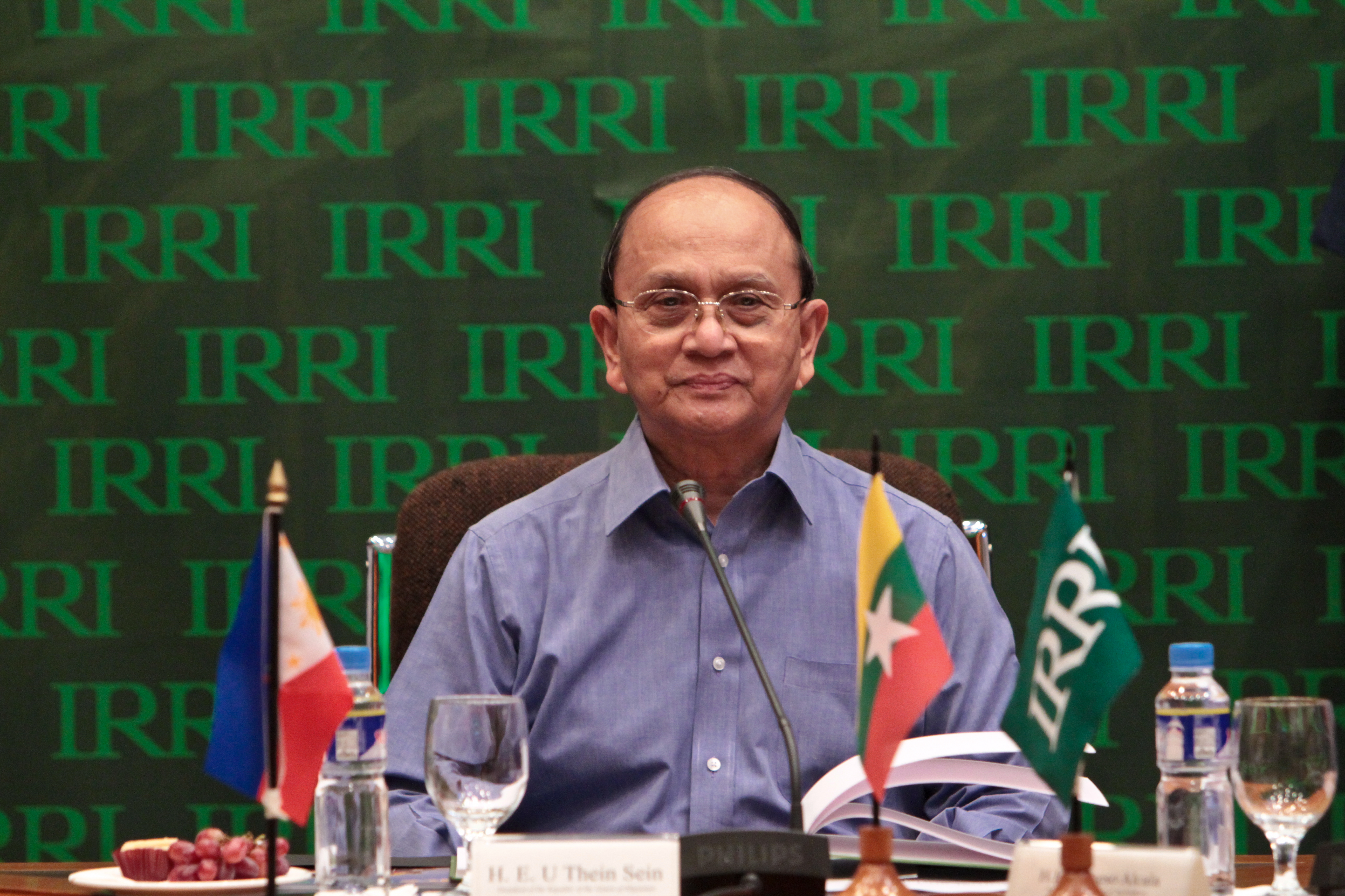 Part of the image collection of the International Rice Research Institute (IRRI).